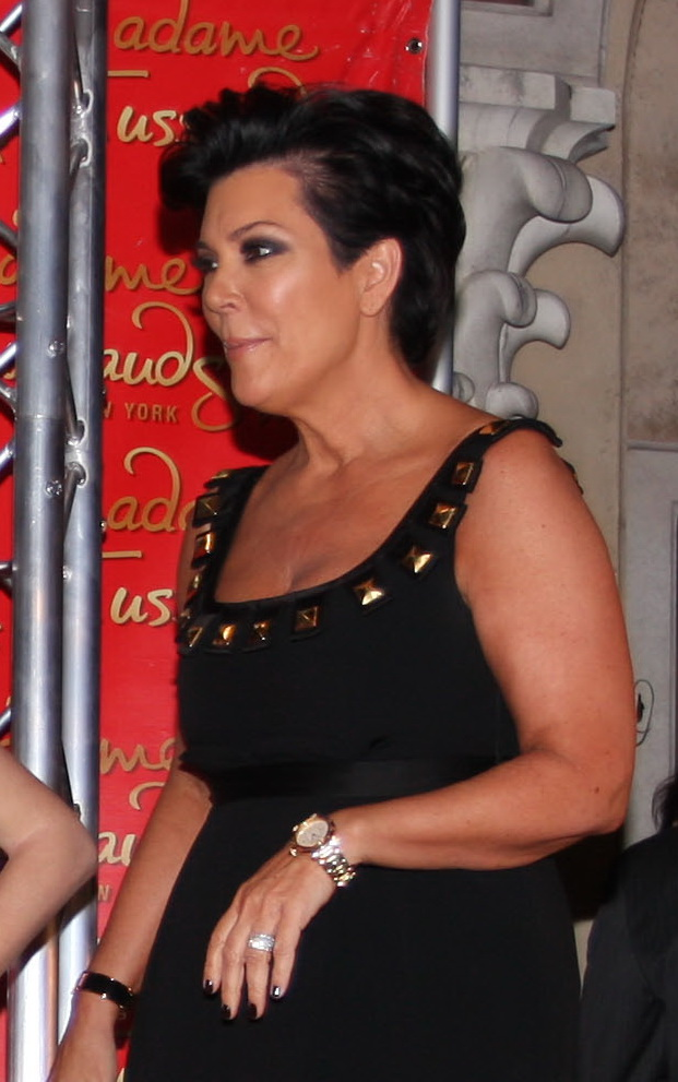 Kris Jenner. Original photo by Martyna Borkowski